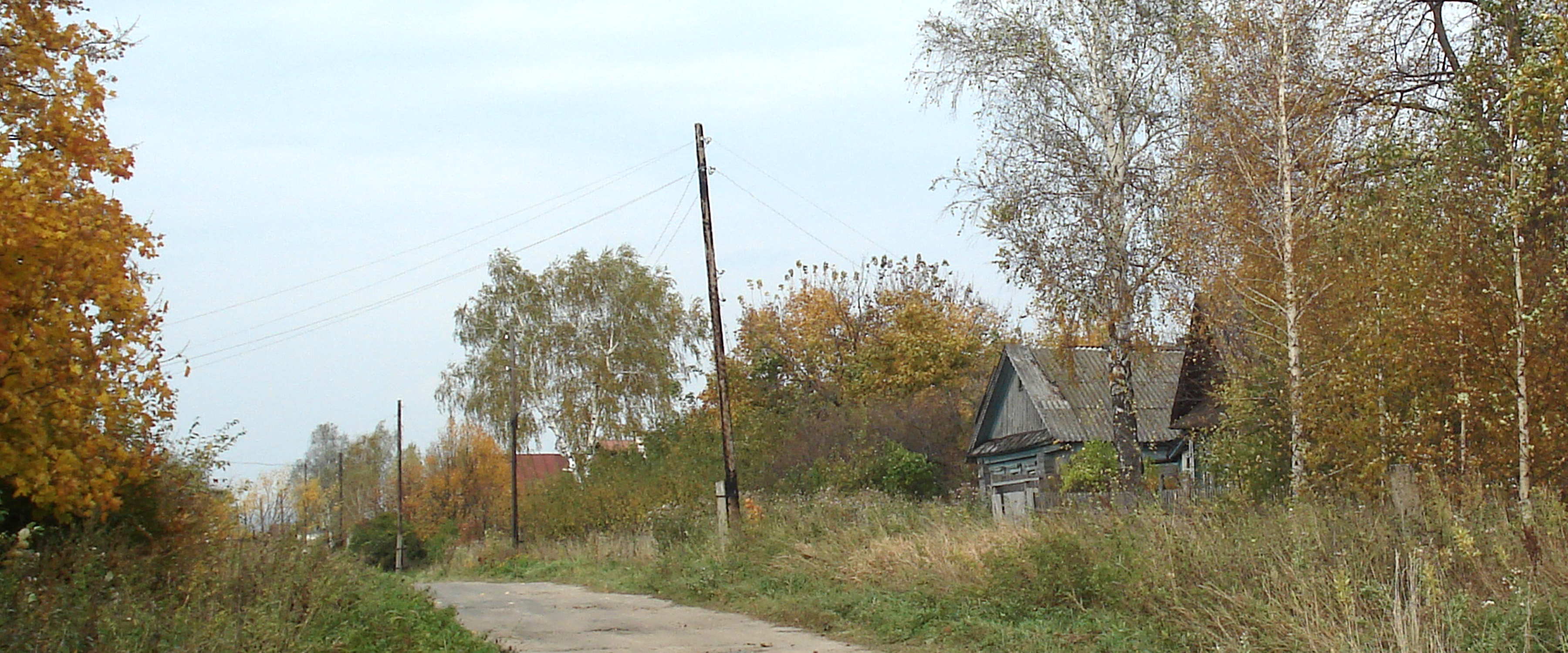 The village of Pozhoga. Nizhegorodskaya oblast. Russia.